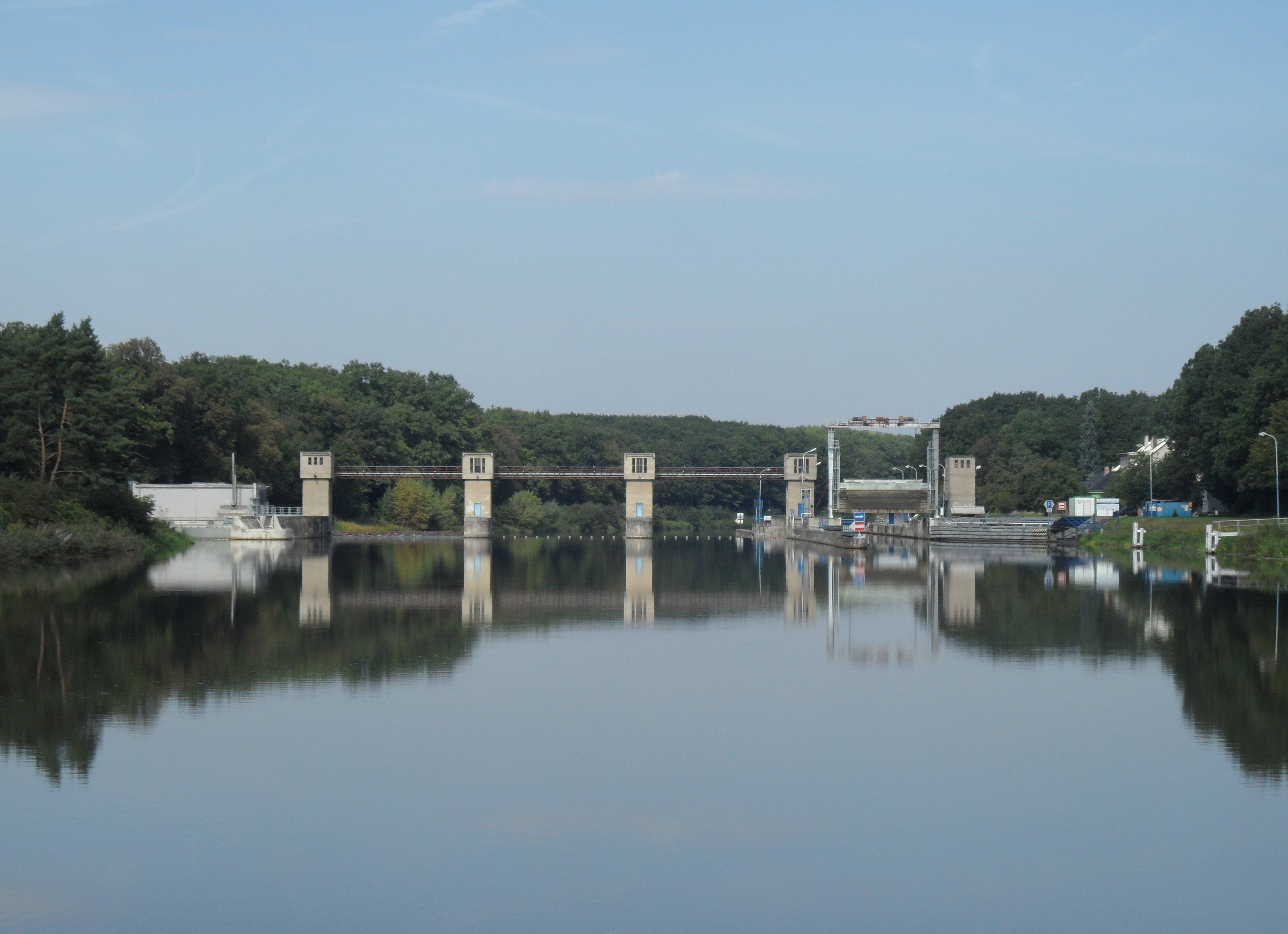 Lock Velký Osek A. Overview: Direction from Kolín, Kolín District, the Czech Republic.